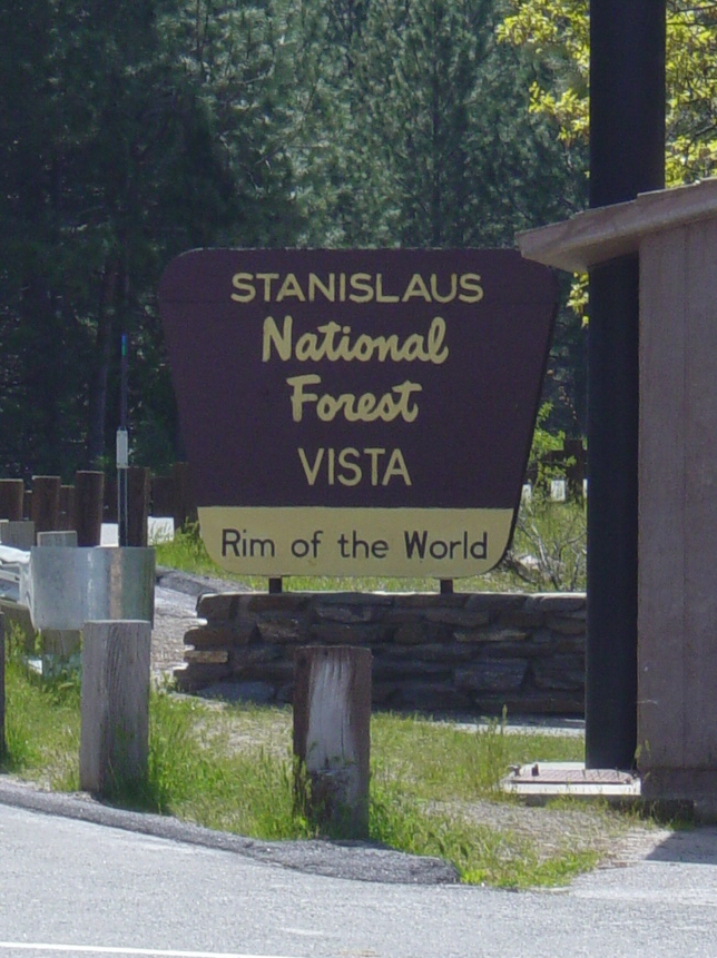 Sign in Stanislaus National Forest, Northern California. Photograph taken by me in April 2005.